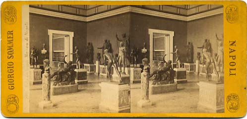 Giorgio Sommer (1834-1914), "Room of the bronze statues in the National Museum in Naples", Italy. Stereo card. Catalogue # 2460.